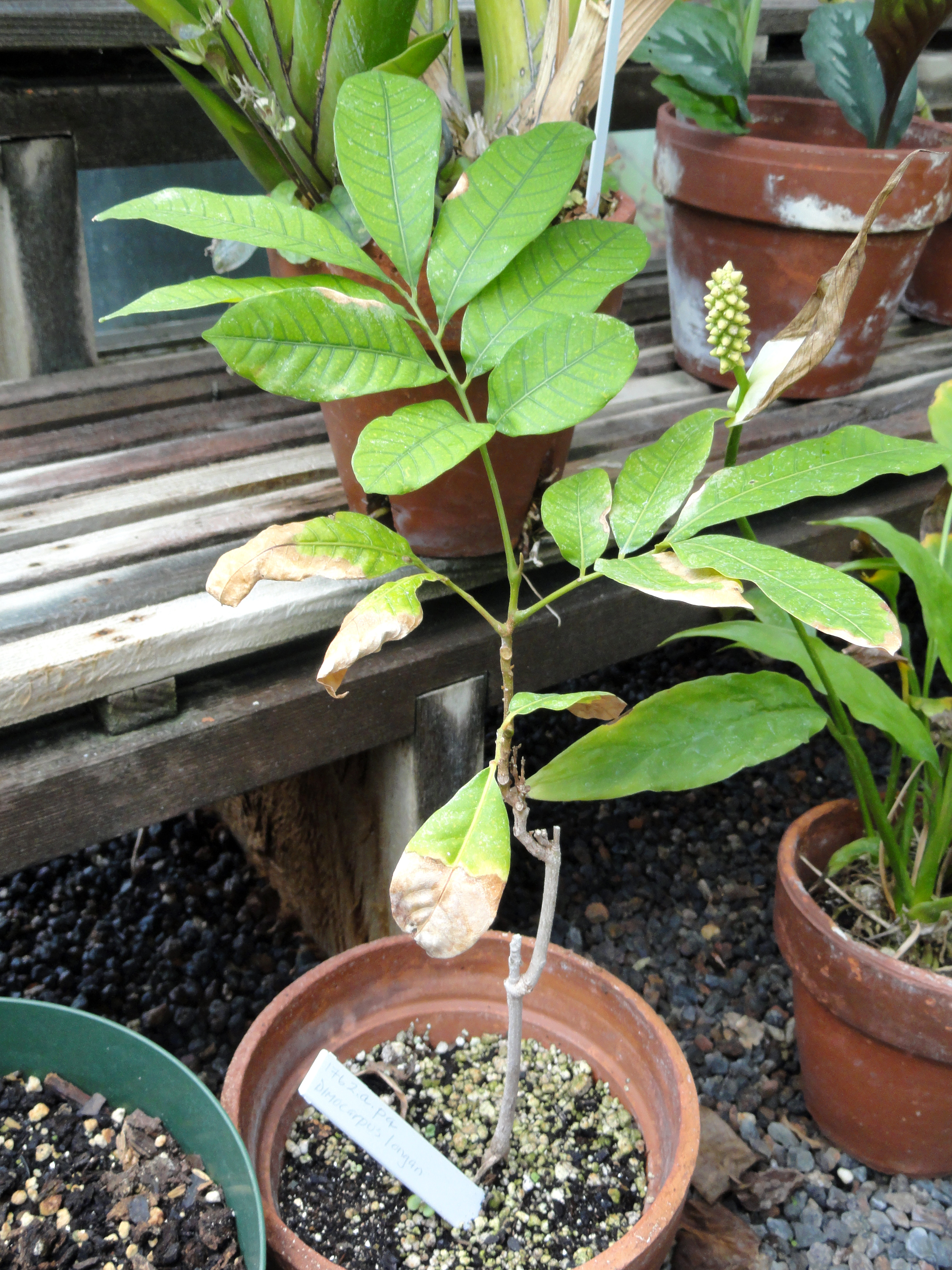 Botanical specimen in the Margaret C. Ferguson Greenhouses, Wellesley College Botanic Gardens, Wellesley College, Wellesley, Massachusetts, USA.